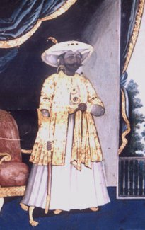 Choladesadhipati Srimant Rajasri Maharaja Kshatrapati Sri Shivaji Raje Sahib Bhonsle Chhatrapati Maharaj